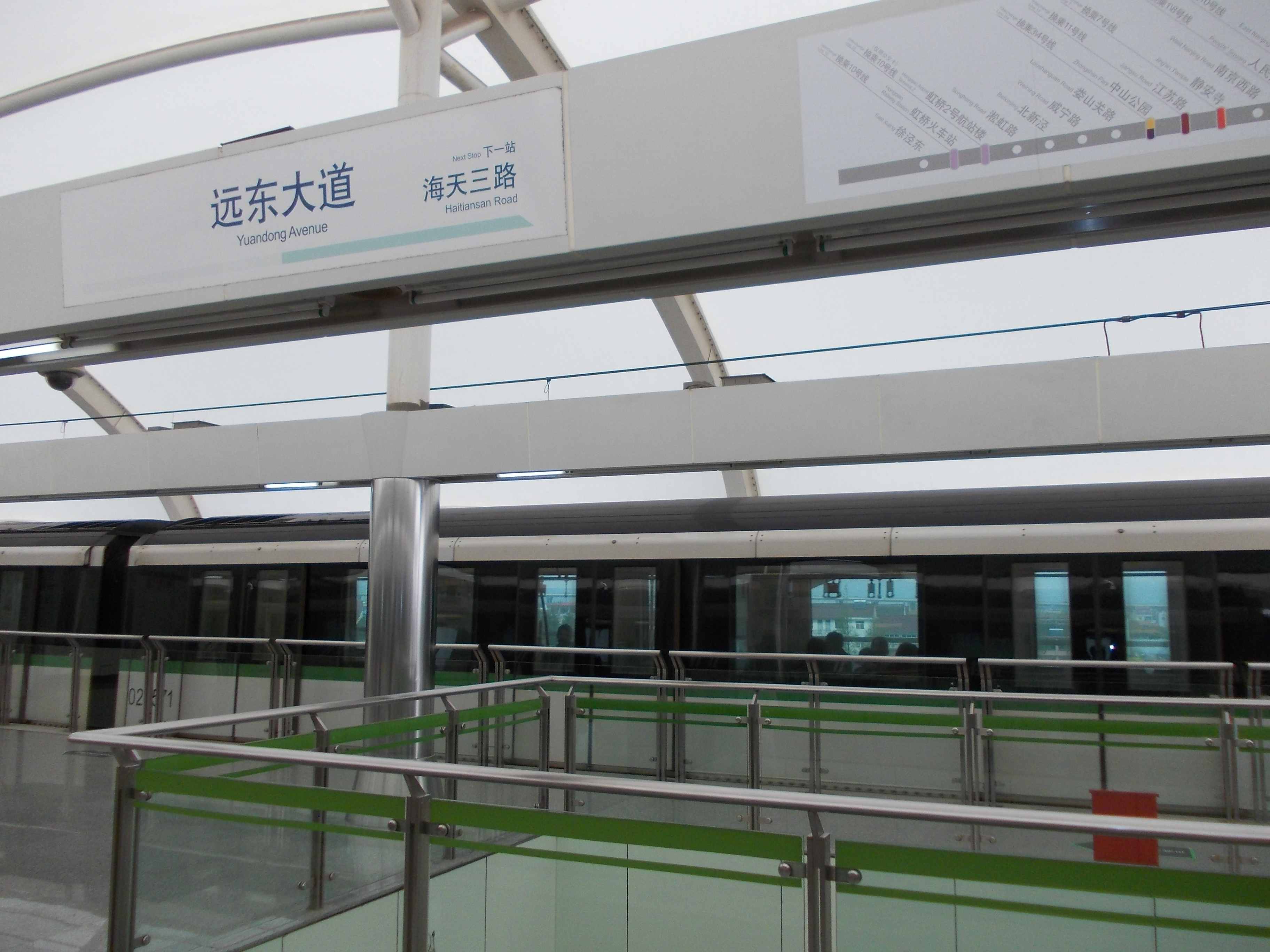 Shanghai Metro - Line 2 - Yuandong Avenue